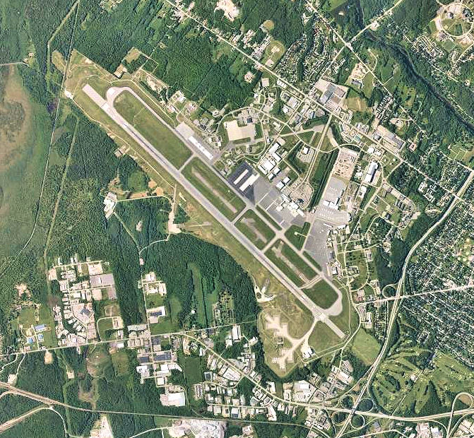 USGS digital orthophoto of Dow Air Force Base in Maine